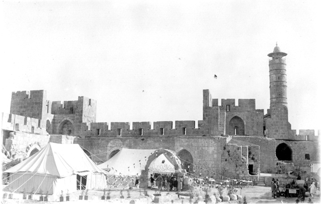 David's Citadel, Jerusalem, Archeological sites of Israel